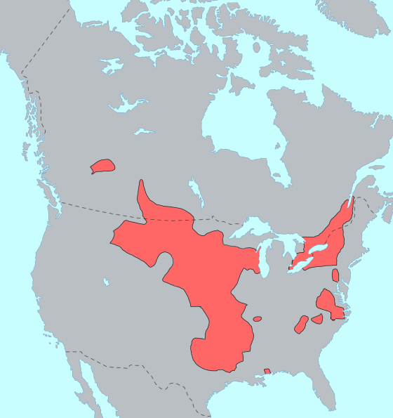 Map of the proposed Macro-Souian language, including the Siouan-Catawban, Iroquoian, and Caddoan language families